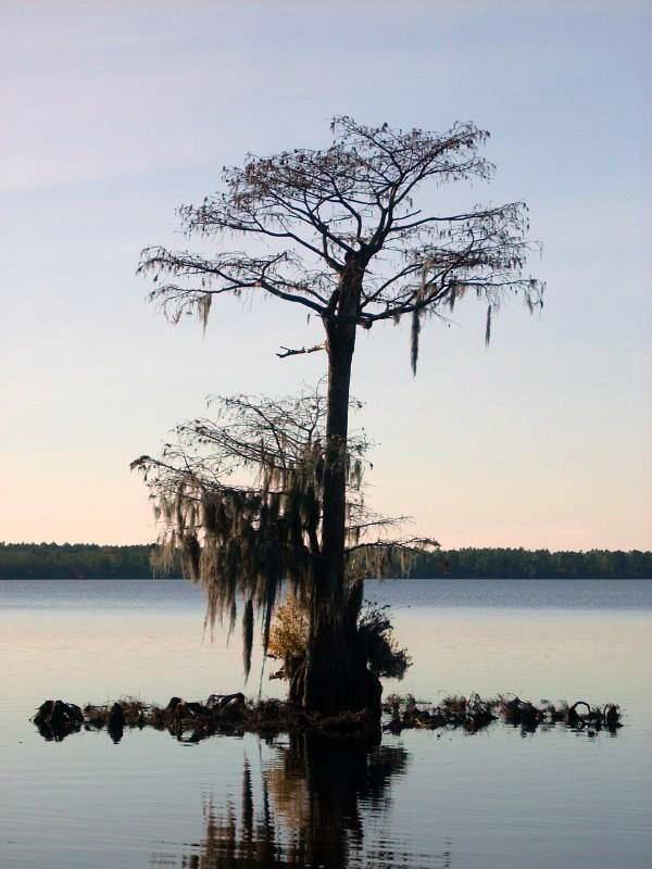 A lone cypress surrounded by the waters if Singletary Lake